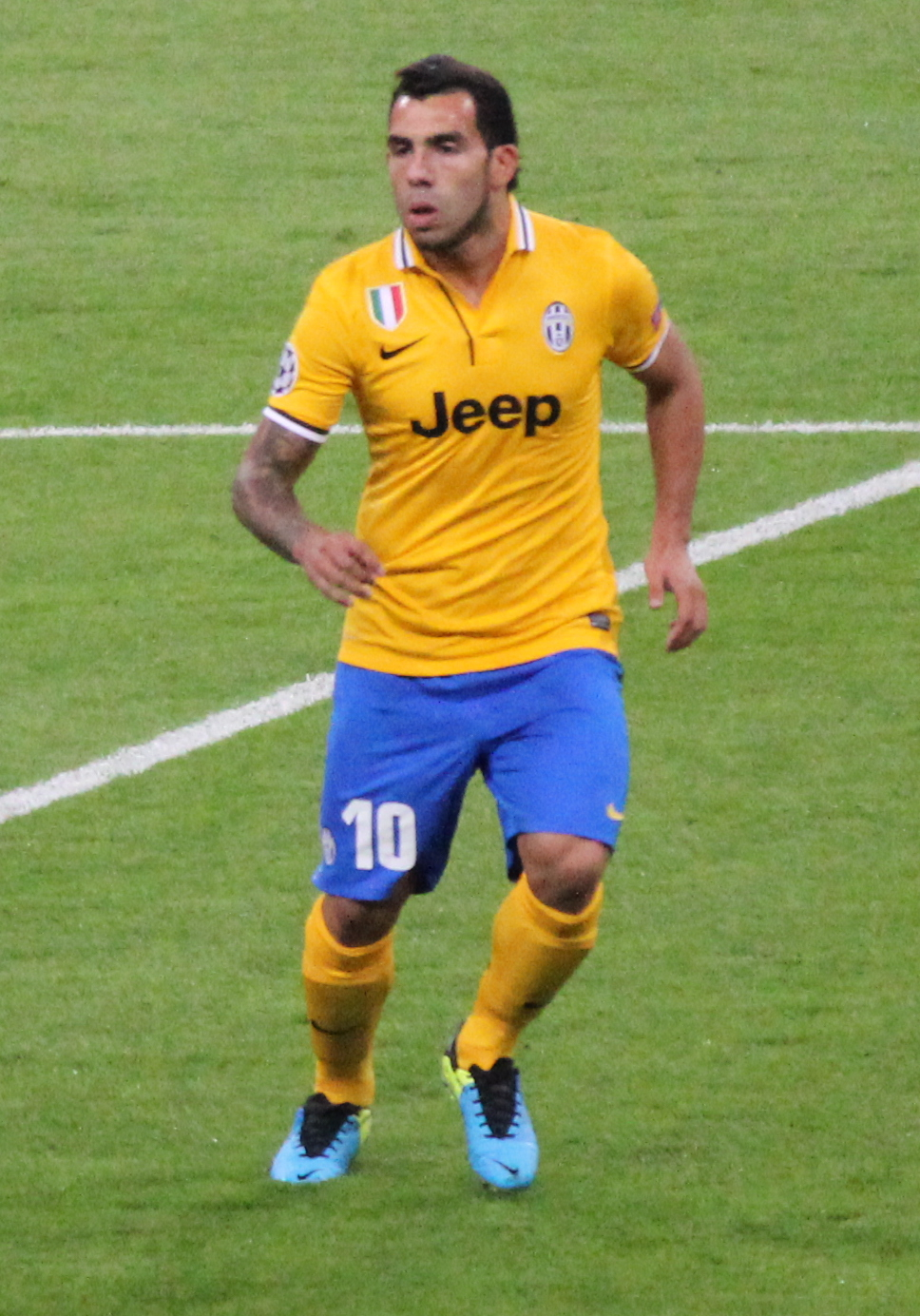 Real Madrid vs Juventus, 24 October 2013 Champions League